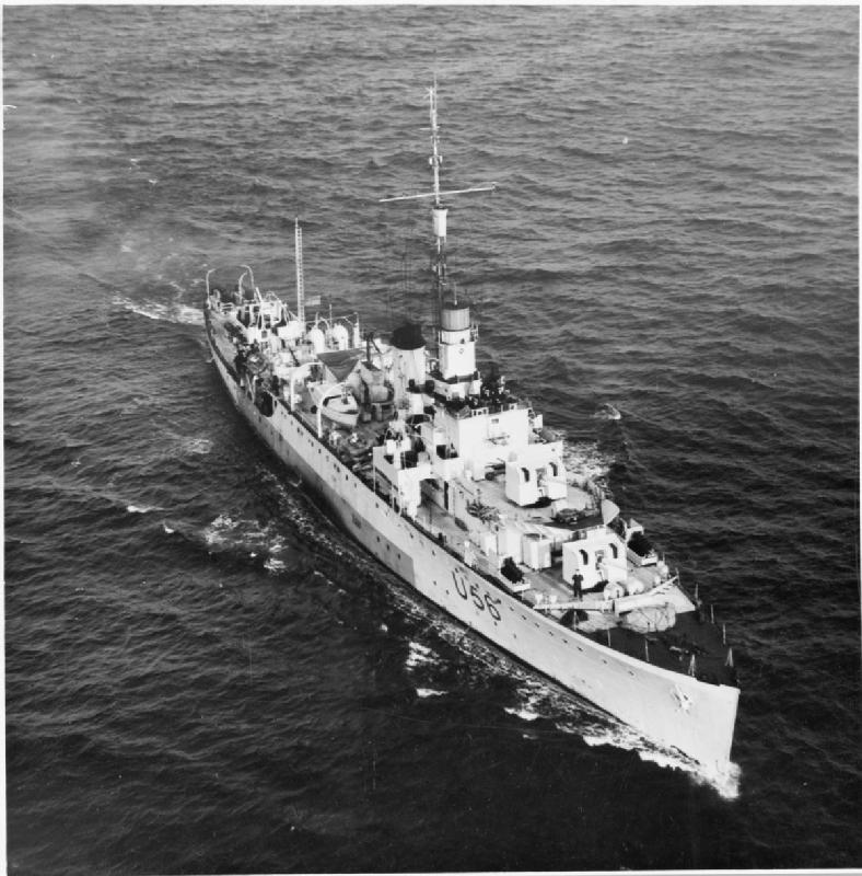 Aerial photograph of British sloop HMS Enchantress.